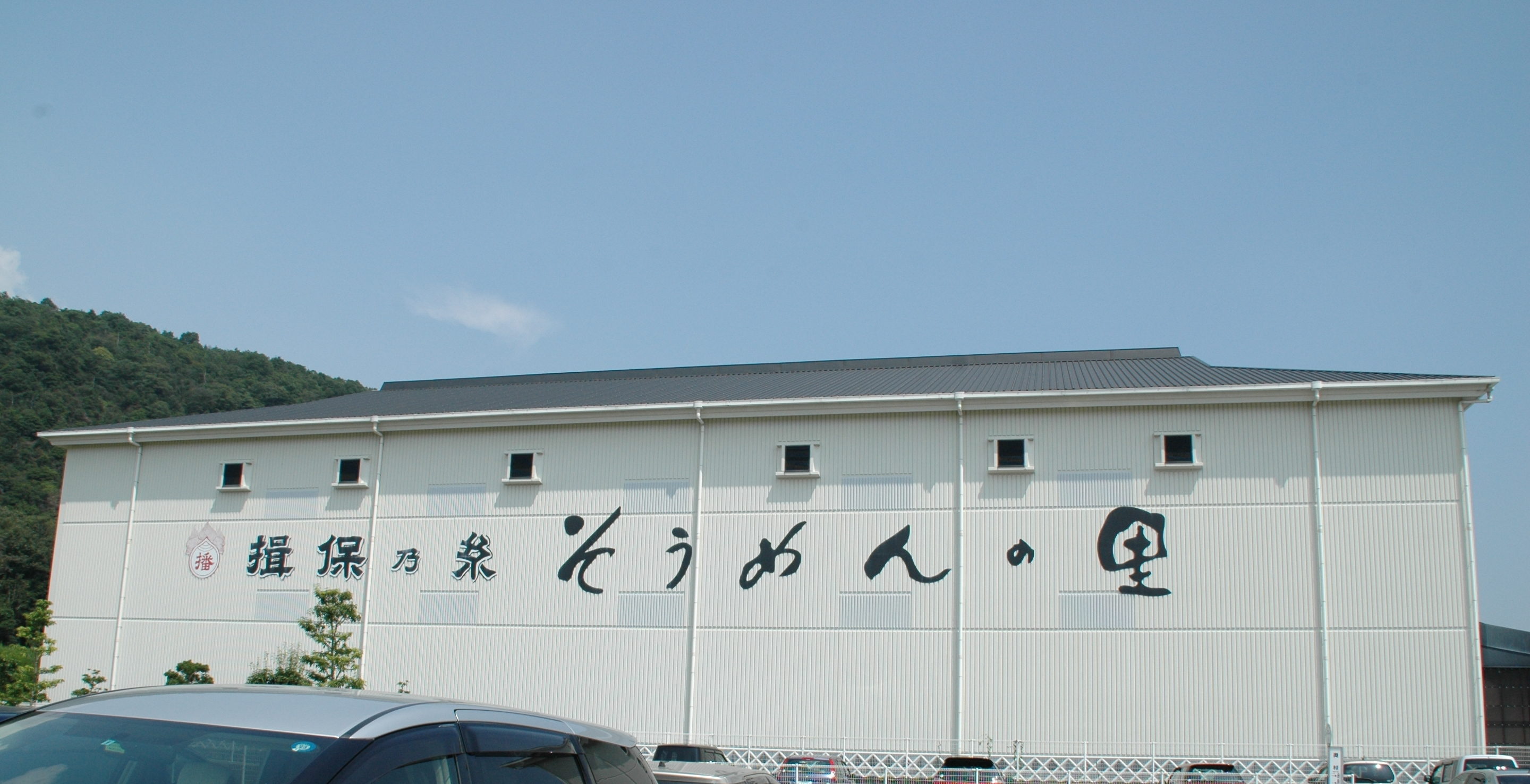 Ibonoito in Tatsuno city, Hyogo pref Japan